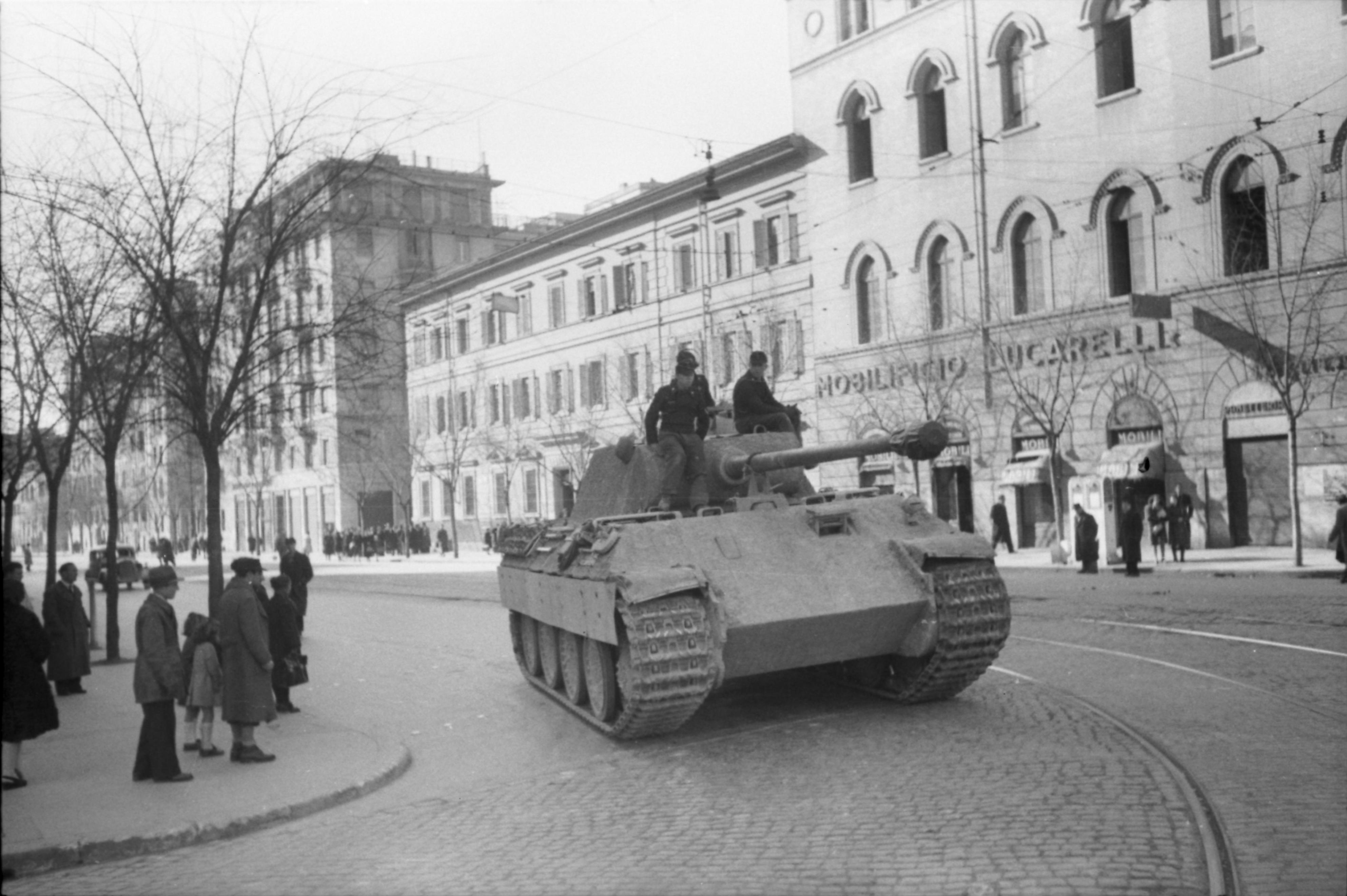 Roma, febbraio 1944. Un carro armato tedesco Panzer V "Panther" (Pantera) sta per immettersi su via Emanuele Filiberto provenendo da viale Alessandro Manzoni. Information added by Wikimedia users.Rome, February 1944. A German Panzer V "Panther" tank at the crossing between viale Alessandro Manzoni and via Emanuele Filiberto